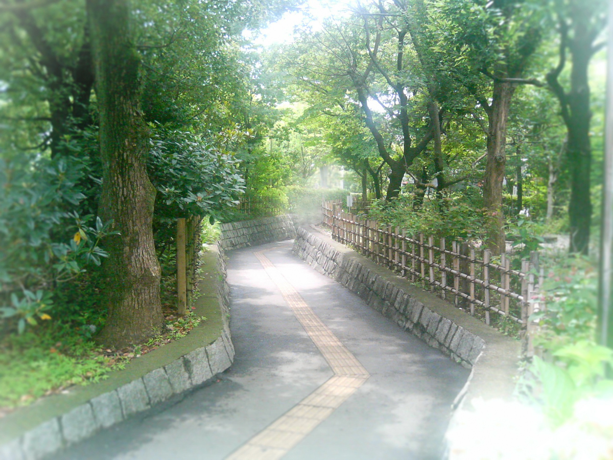 an alley between small botanical gardens called "Manyō- shoku･butsu･en", adjacent to the entrance of Tokorozawa City Library, located in the field of koku-koen park.